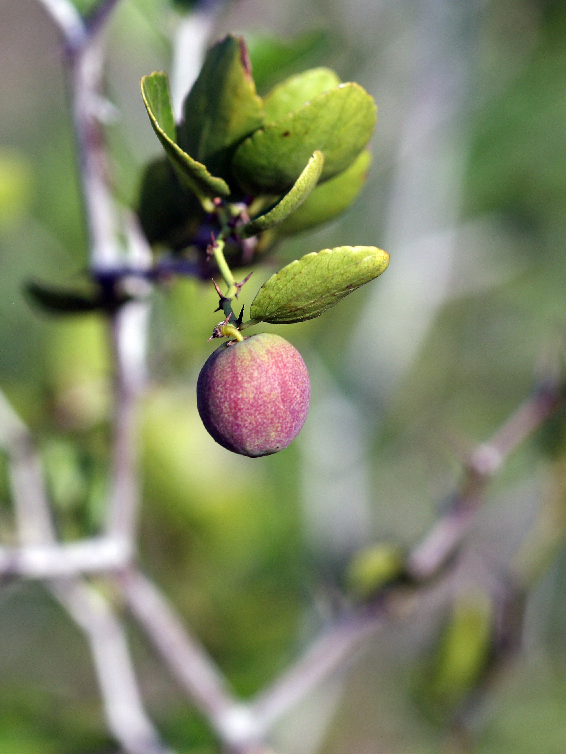 A ripining fruit of Zizyphus lotus. Photo taken in the elevation of 85 m in Cukurova University Campus in Adana, Turkey. The edible fruit is a globose dark yellow drupe 1–1.5 cm diameter.